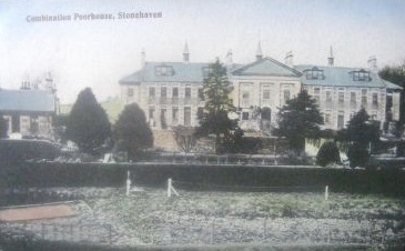 Old postcard of the Combination Poorhouse Stonehaven (latterly known as Woodcot Hospital)